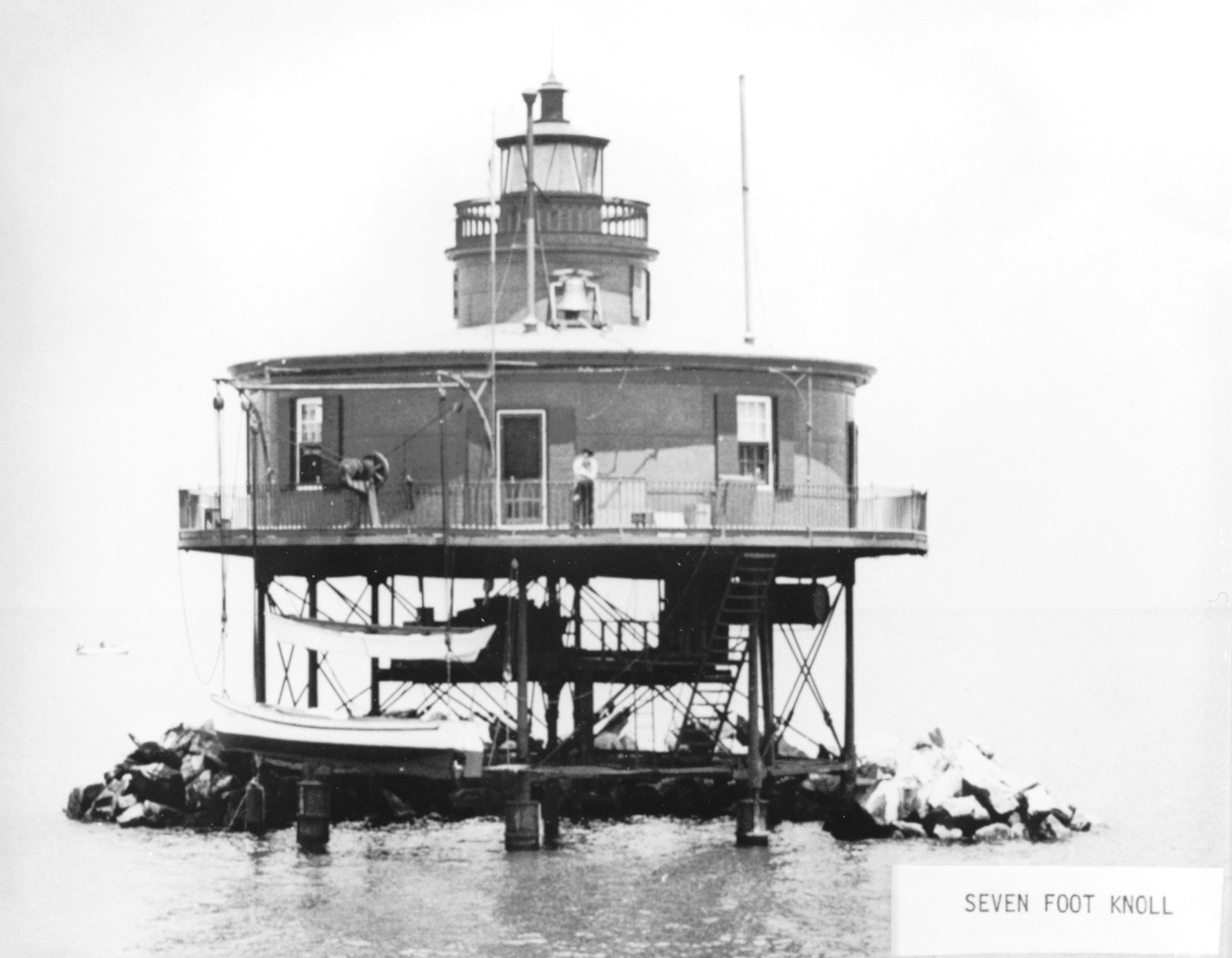 Murray and Hazelhurst